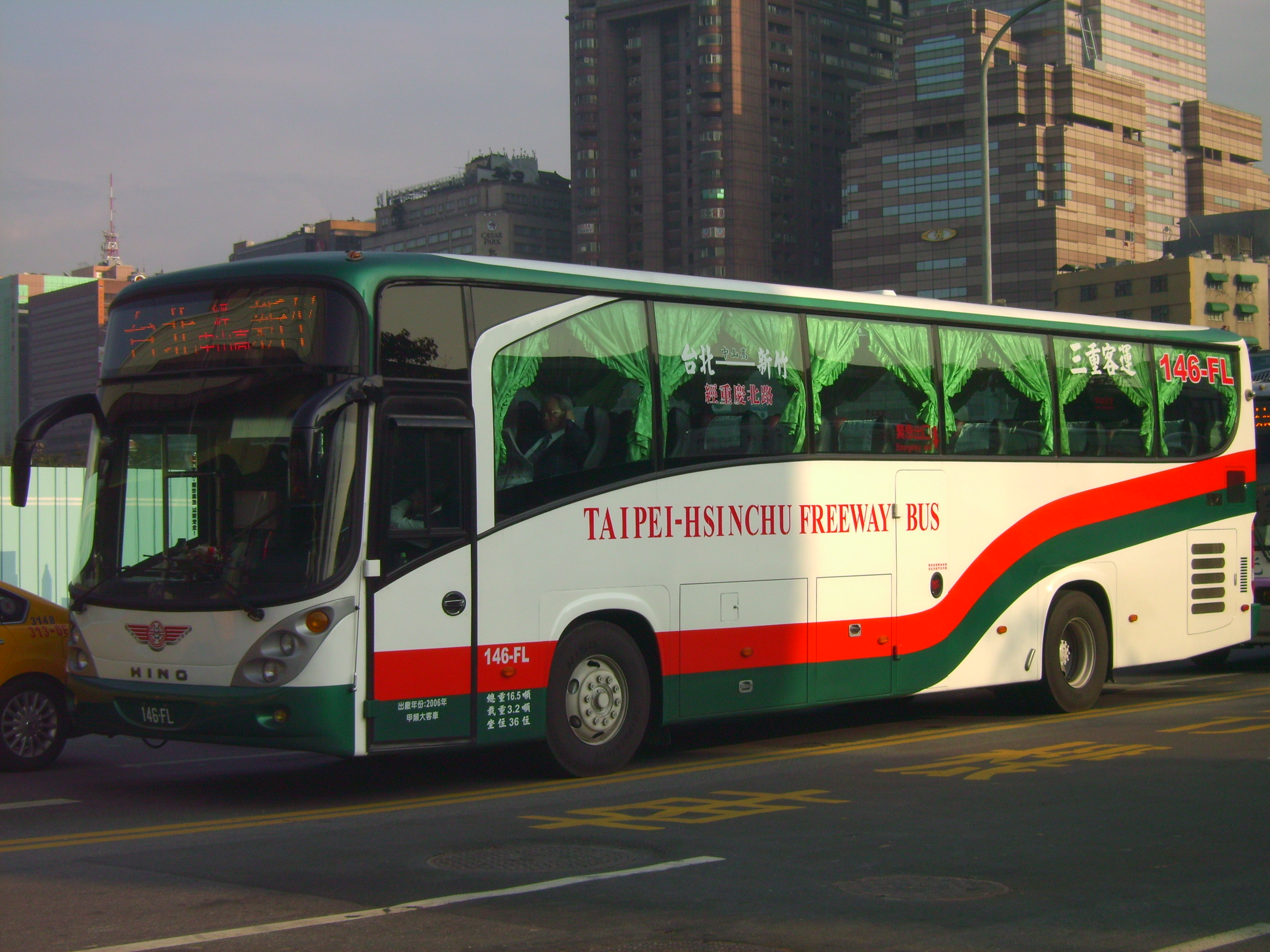 Taiwan San Chung Bus "Hsinchu-Taipei" Line (146-FL) contained Hino LRM series structure.